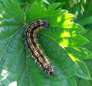 English name: Small Tortoiseshell (This is the caterpillar). This picture was made by me (B kimmel). This picture is licenced GFDL and you can use it for any purpose. If the scientific name is not correct, please let me know. -B kimmel 19:10, 28 May 2005 (UTC)